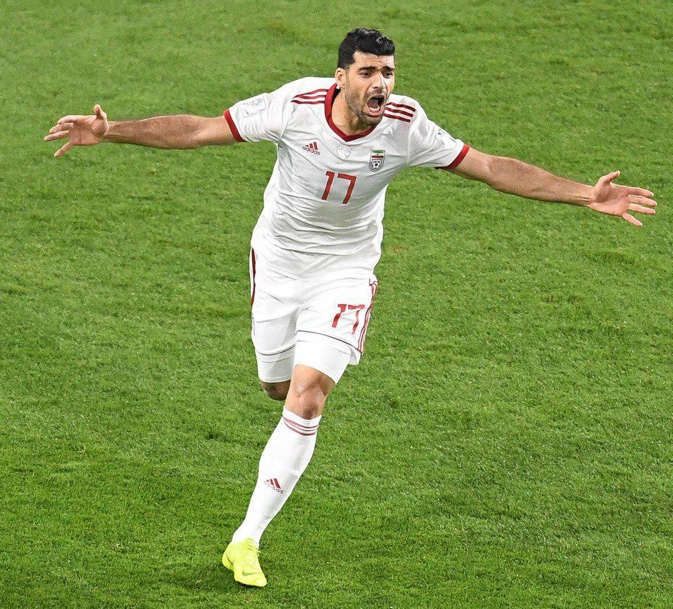 China-Iran, 2019 AFC Asian Cup Quarter-finals